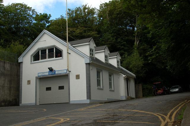 Lifeboathouse, Tramore (1) Tramore lifeboat station opened in 1858 and closed in 1924. It re-opened in 1964. It operates a “D” class inshore rescue boat.